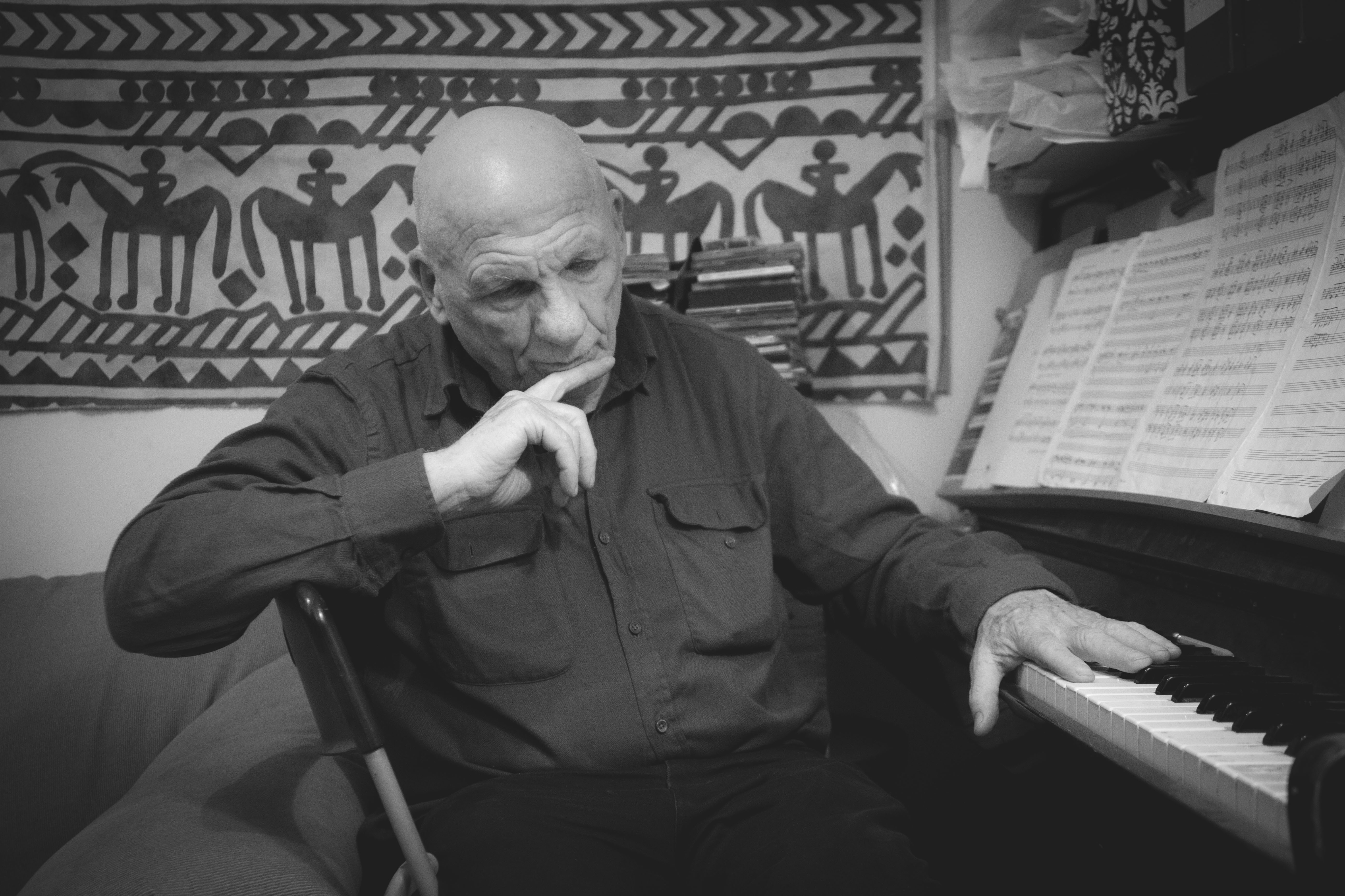 Israeli composer Netta Aloni made for publicity reasons and included in his latest LP "the empty rooms" from 2012.